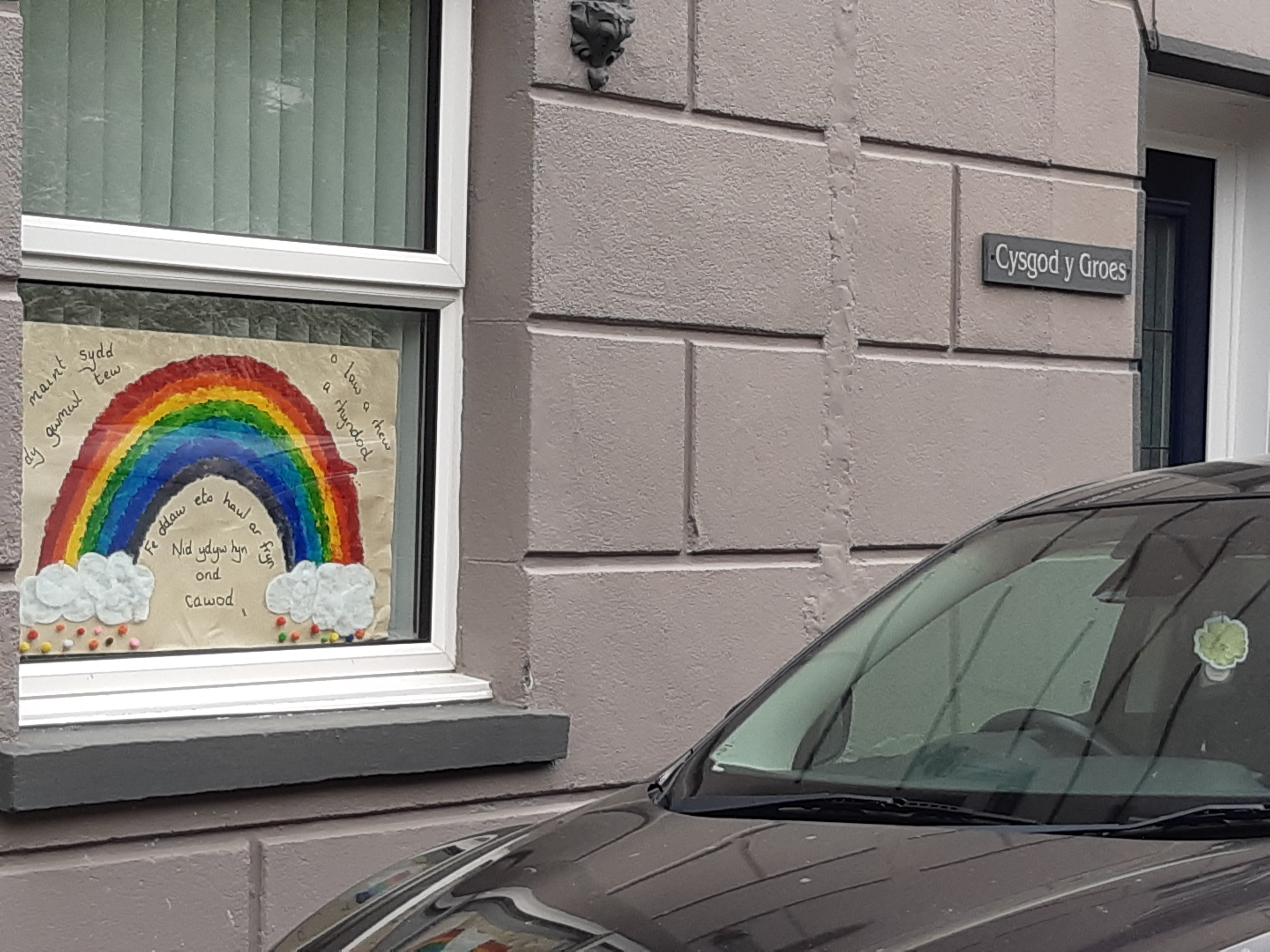 poster in house window with poetry in Welsh to support the NHS during COVID-19 crisis, May 2020, 'Cysgod y Groes', Llanbadarn, Aberystwyth "Er mawr maint sydd yn dy gwmwl tew o law a rhew a rhyndod Fe ddaw eto haul ar fryn nad ydyw hyn ond cawod"